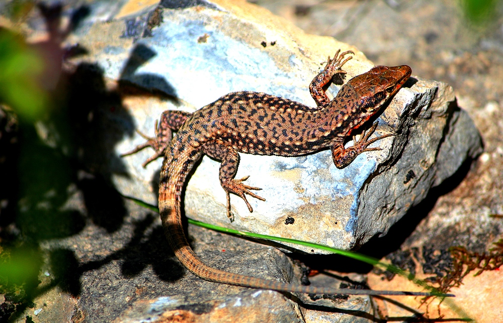 This species has been recorded from the Alborz Mountains of northern Iran and the Kopet Dagh Mountains of Iran and adjacent Turkmenistan (only at Sushankaa Bol'shie Kazanki) (Anderson, 1999). It has been found from close to sea level to 3,355m asl.Scientific Name: Darevskia defilippiiSpecies Authority: (Camerano, 1877)Common Name/English – Alborz LizardSynonym/Lacerta defilippii (Camerano, 1877)